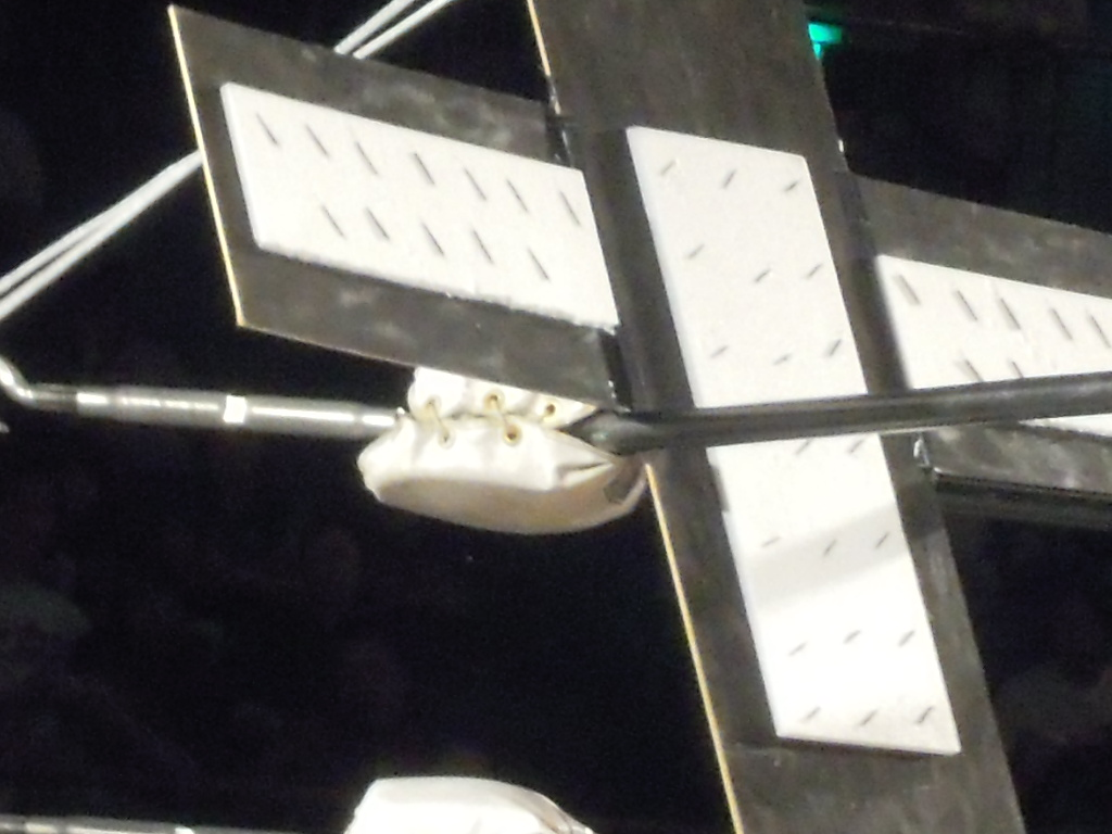 "Razor Cross Board" (fitted with many razor blades) - Six Man Tag Team Barbed Wire Razor Blade Death Match (DJ Hyde & Jun Kasai & Nick Gage vs Isami Kodaka & Jaki Numazawa & Masashi Takeda) - BJW 15th Anniversary Show ~Death & Crazy That's The Way Of The BJ-World~ - Big Japan Pro Wrestling - Yokohama Cultural Gymnasium Six Man Tag Team Barbed Wire Razor Blade Death Match@BJW 15th Anniversary Show - CAGEMATCH.de